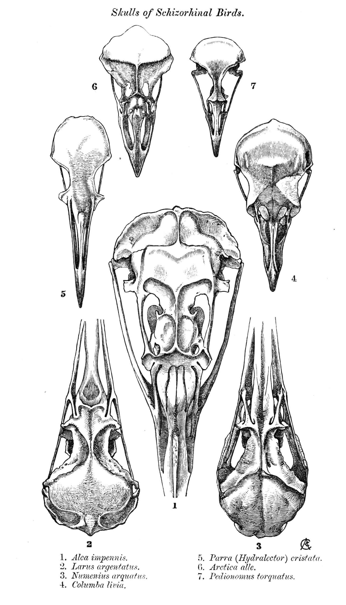 Skulls of schizorhinal birds: Great Auk, from ventral Herring Gull, from dorsal Eurasian Curlew, from dorsal Rock Dove, from dorsal Comb-crested Jacana or Bronze-winged Jacana, from dorsal Dovekie, from dorsal Plains-wanderer, from dorsal